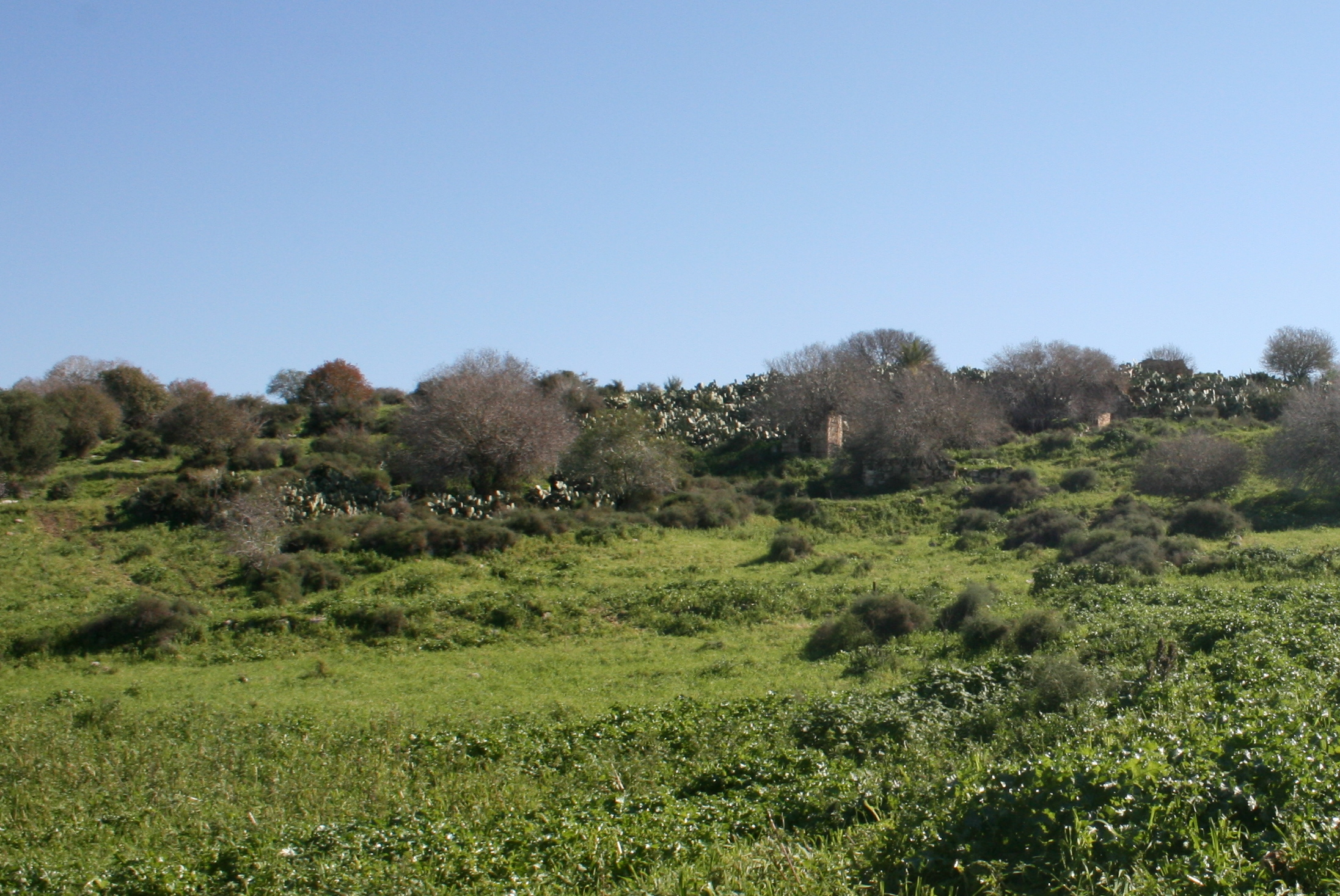 Remains of the Palestinian village of Hawsha, depopulated in 1948. Note the cactus shrubs which bear fruit known as cactus pear and which are good indicators of where such villages were once located. There is also a one room structure towards center that likely served as a residence. Most of the village was destroyed by Israeli forces following its conquest and depopulation in the 1948 war.